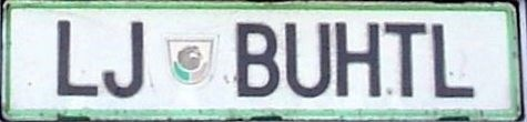 Slovenian License plate LJ BUHTL. LJ as Ljubljana can also mean "lej!" (look!). Buhtl is a Steamed Bun.